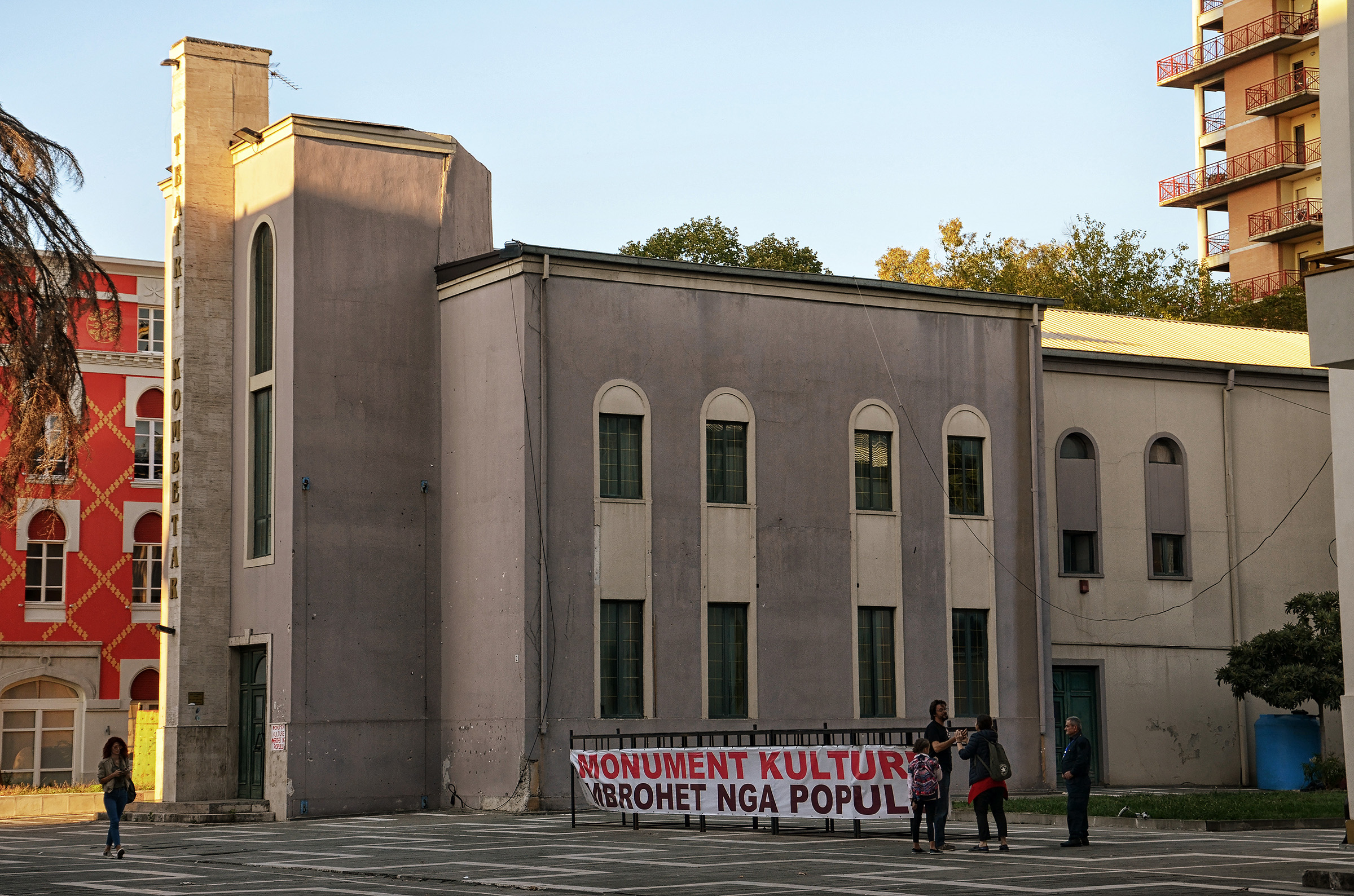 The National Theater of Albania with protesters against the demolition of the building